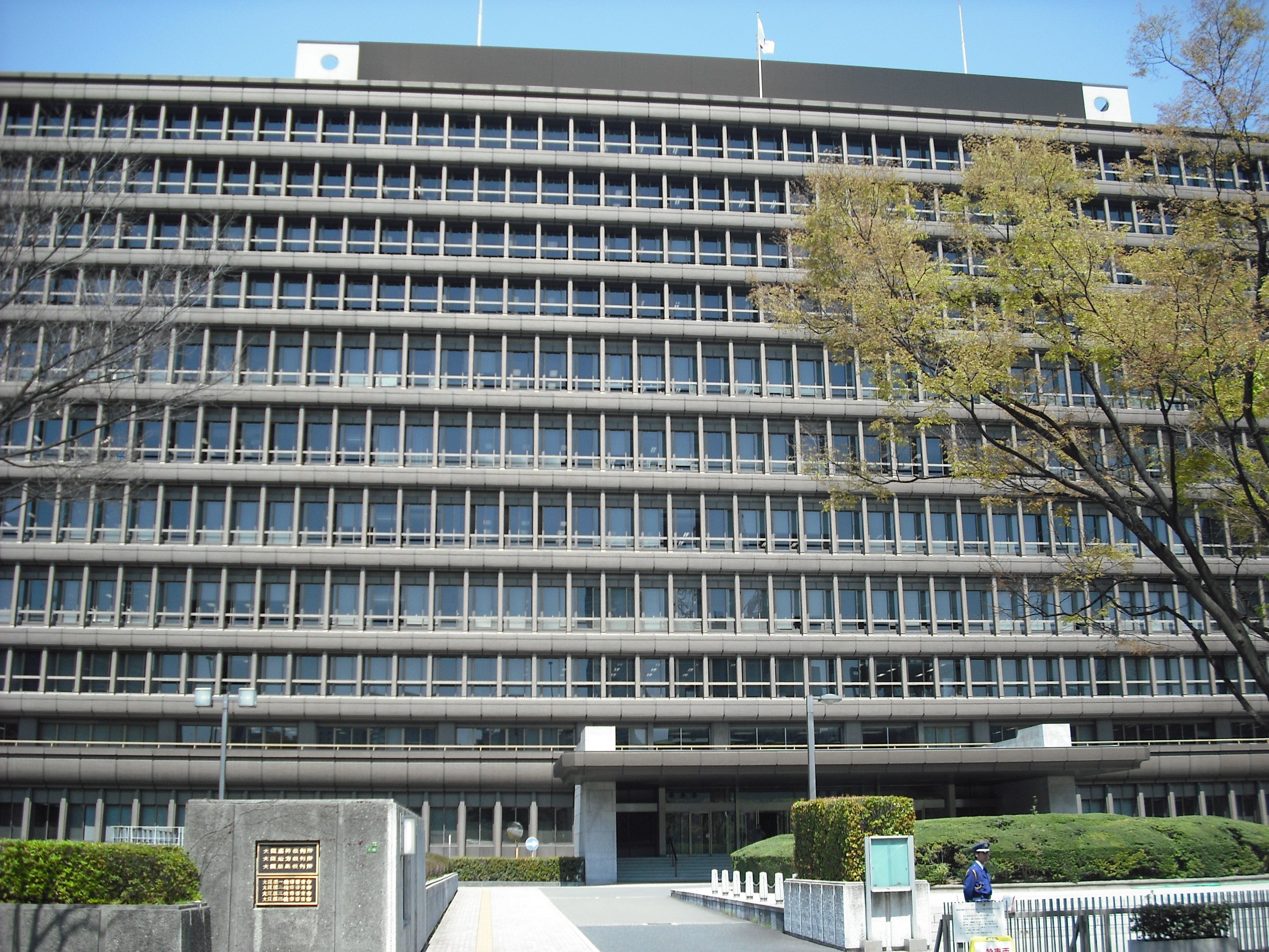 Osaka High, District and Summary Court Building (Kita-ku,Osaka,Osaka Prefecture,Japan)